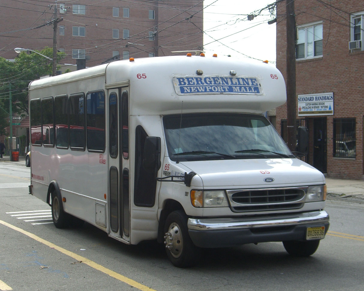 A dollar van on New York Avenue and 7th Street in Union City, New Jersey. This particular van travels between Jersey City and Fort Lee, partly along Bergenline Avenue. When this photo was taken, a single zone ride cost $1.25.